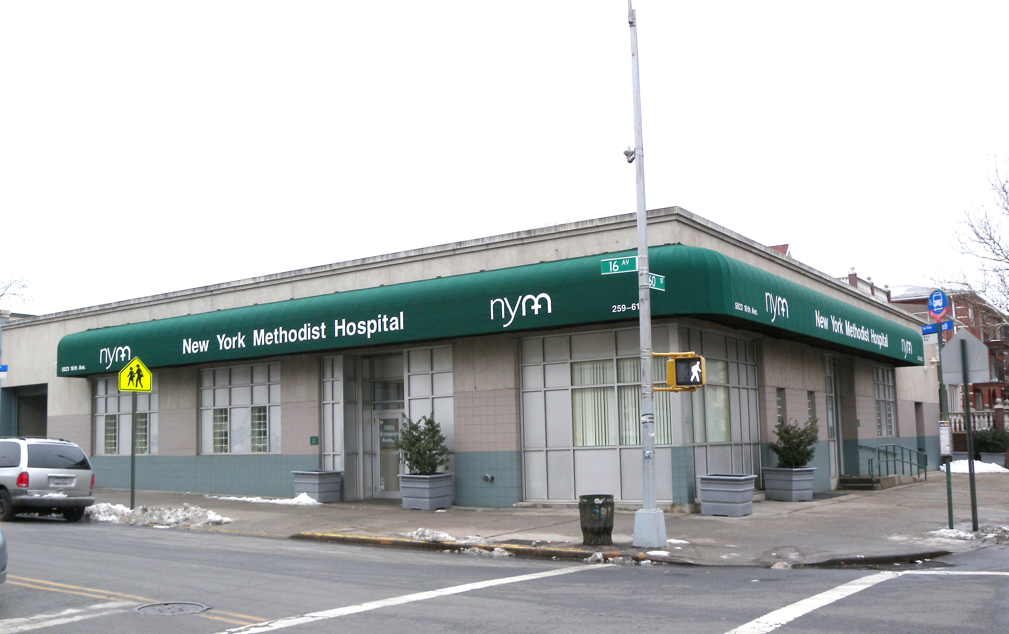 Looking east across 16th Avenue and 60th Street at a clinic of New York Methodist Hospital on a cloudy Christmas Day.